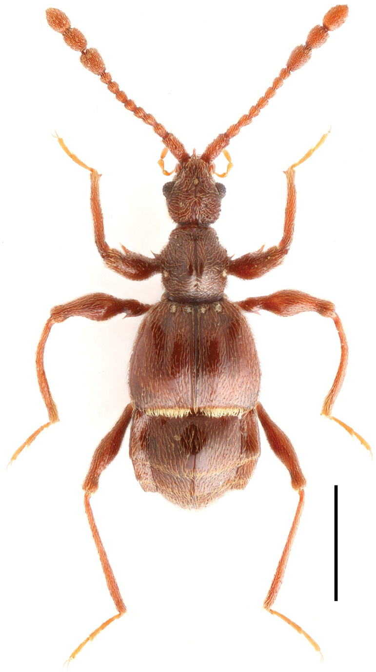 Male habitus of Pselaphodes monoceros. Scale: 1.0 mm.